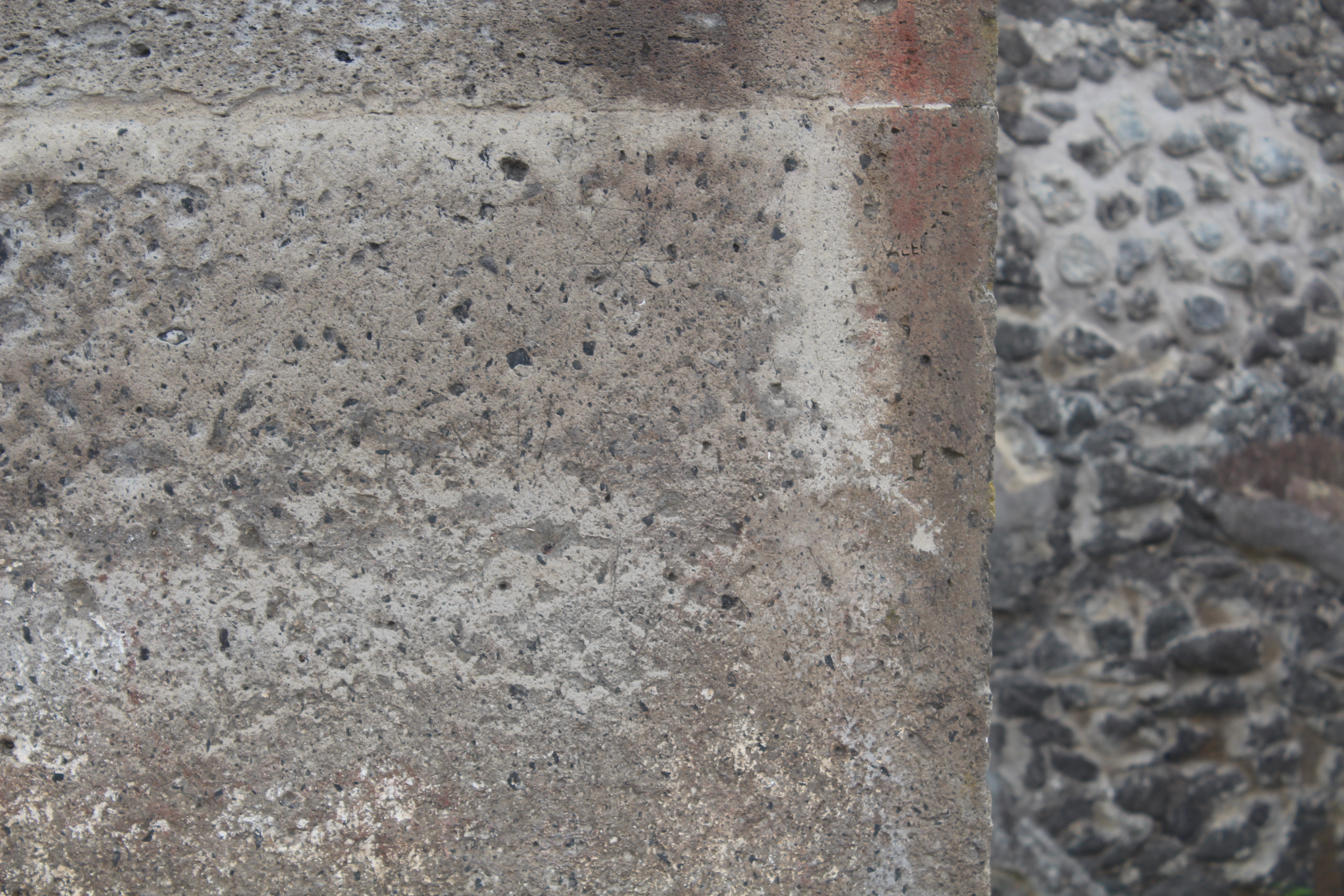 Ancient Jewish inscriptions in Pompeii, Pompeii, Italy